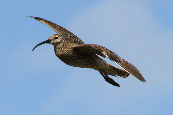 Whimbrel (Numenius phaeopus) in Lonsoraefi area, Iceland.